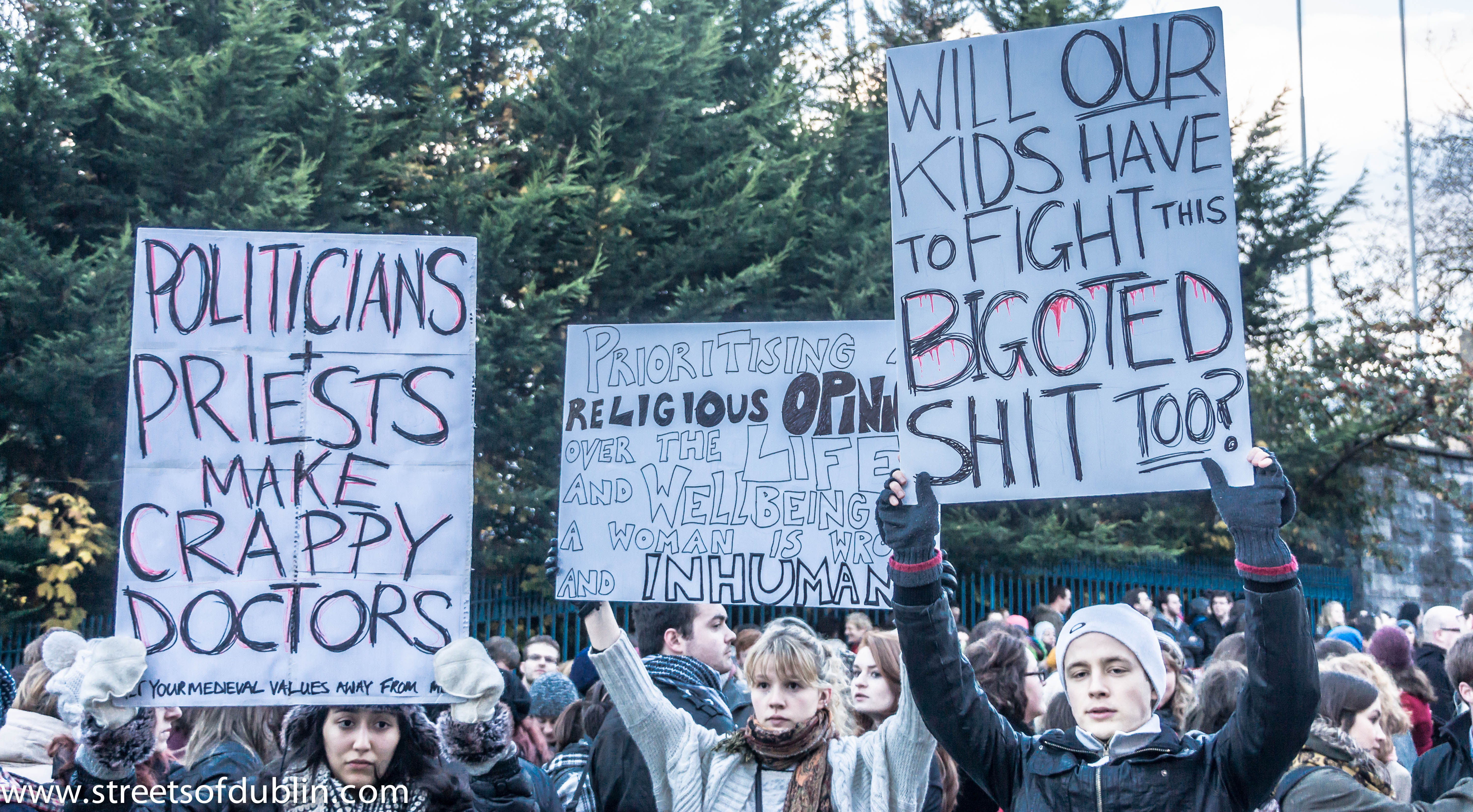 A large number of protesters took to the streets of Dublin in response to the unfortunate death of an Indian woman who was refused an abortion. The 31-year-old woman died following a miscarriage at University Hospital Galway.